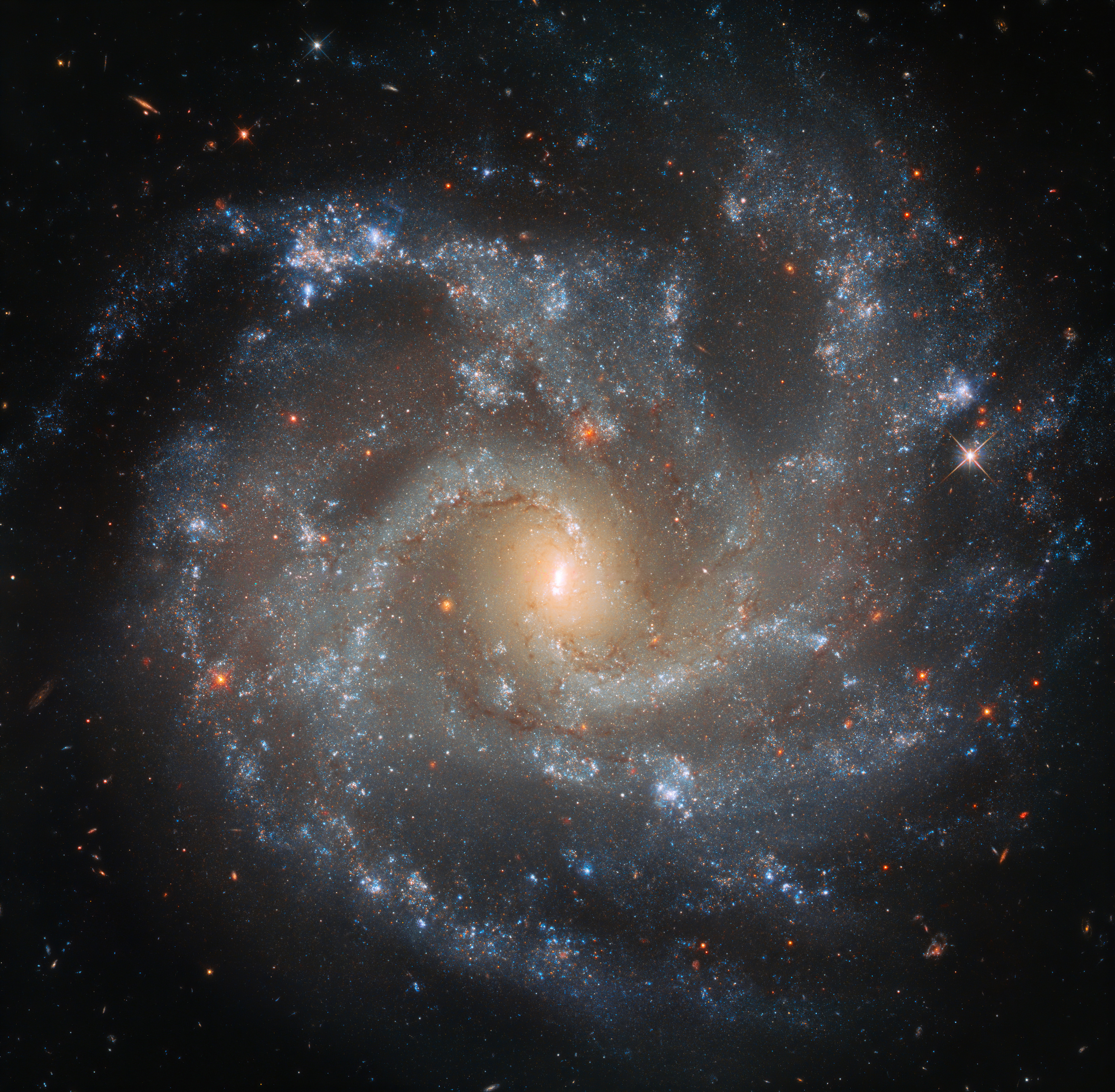 Some of the most dramatic events in the Universe occur when certain stars die — and explode catastrophically in the process. Such explosions, known as supernovae, mainly occur in a couple of ways: either a massive star depletes its fuel at the end of its life, become dynamically unstable and unable to support its bulk, collapses inwards, and then violently explodes; or a white dwarf in an orbiting stellar couple syphons more mass off its companion than it is able to support, igniting runaway nuclear fusion in its core and beginning the supernova process. Both types result in an intensely bright object in the sky that can rival the light of a whole galaxy. In the last 20 years the galaxy NGC 5468, visible in this image, has hosted a number of observed supernovae of both the aforementioned types: SN 1999cp, SN 2002cr, SN2002ed, SN2005P, and SN2018dfg. Despite being just over 130 million light-years away, the orientation of the galaxy with respect to us makes it easier to spot these new ‘stars’ as they appear; we see NGC 5468 face on, meaning we can see the galaxy’s loose, open spiral pattern in beautiful detail in images such as this one from the NASA/ESA Hubble Space Telescope.